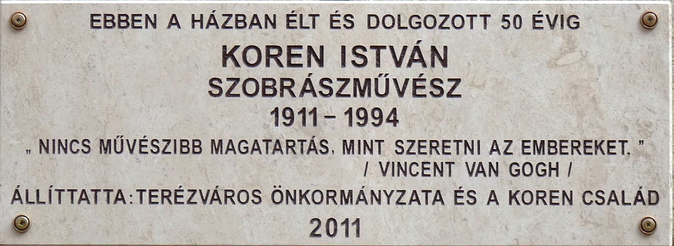 István Koren (sculptor) commemorative plaque in Budapest District VI, Hajós Street No 19.